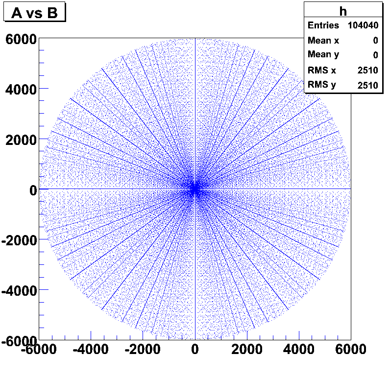 Scatter plot of the legs (a,b) of the first Pythagorean triples with a and b less than 6000. A total of 104040 value pairs where from 1/8 of them 13 005 are unique.